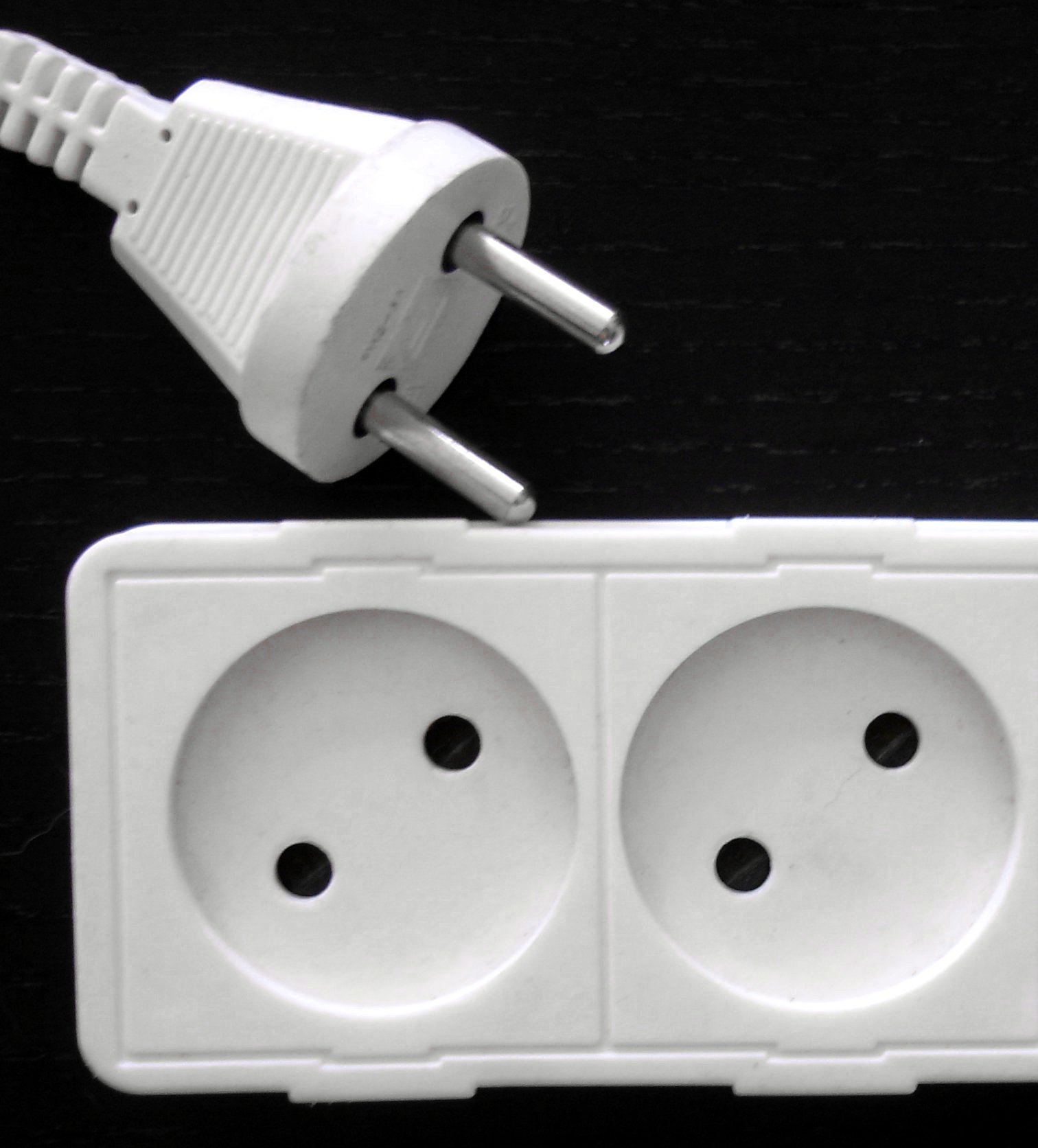 European unearthed plug and receptacle